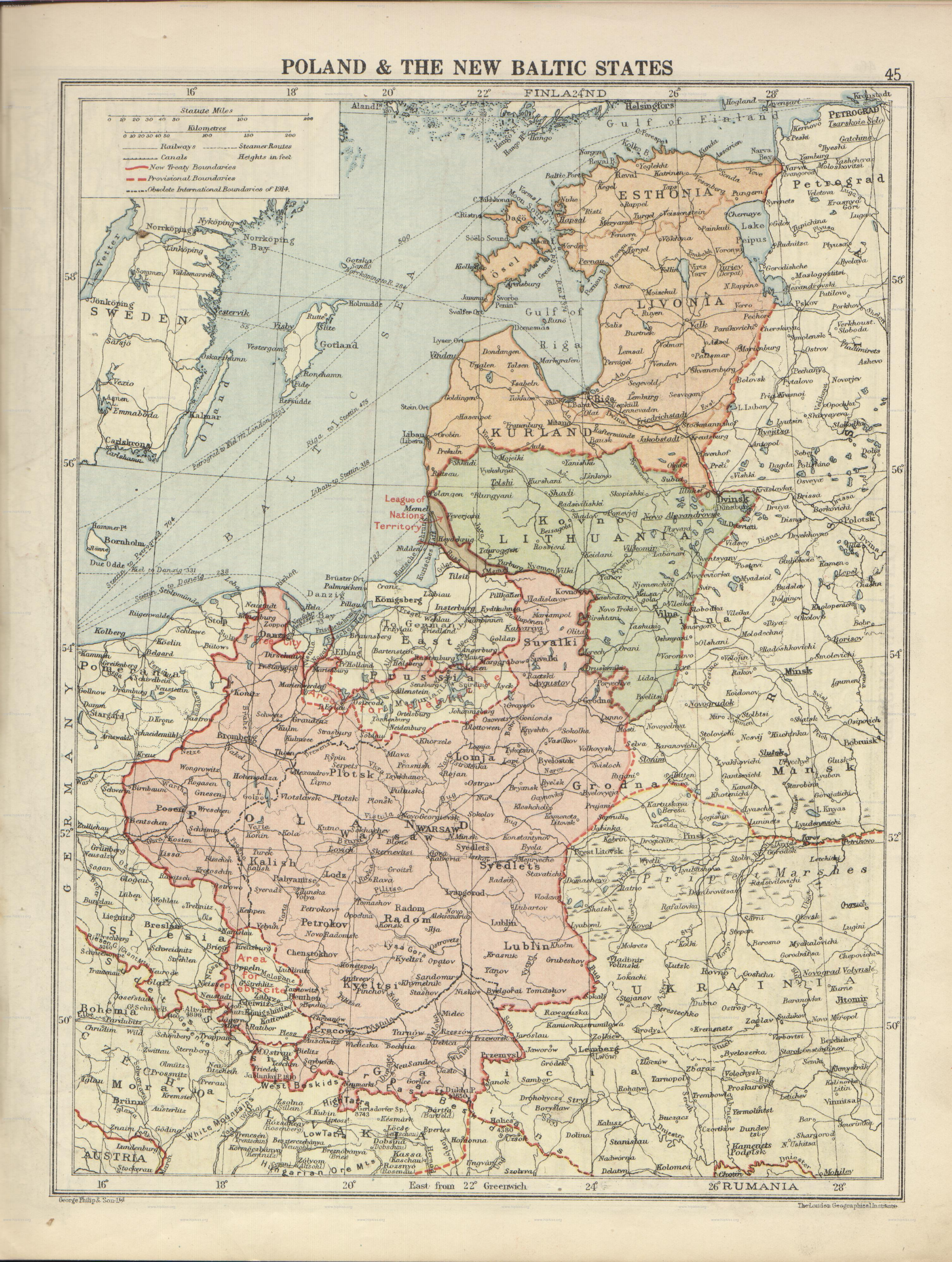 Poland and the Baltic States, from London Geographical Institute - The Peoples Atlas - 1920.